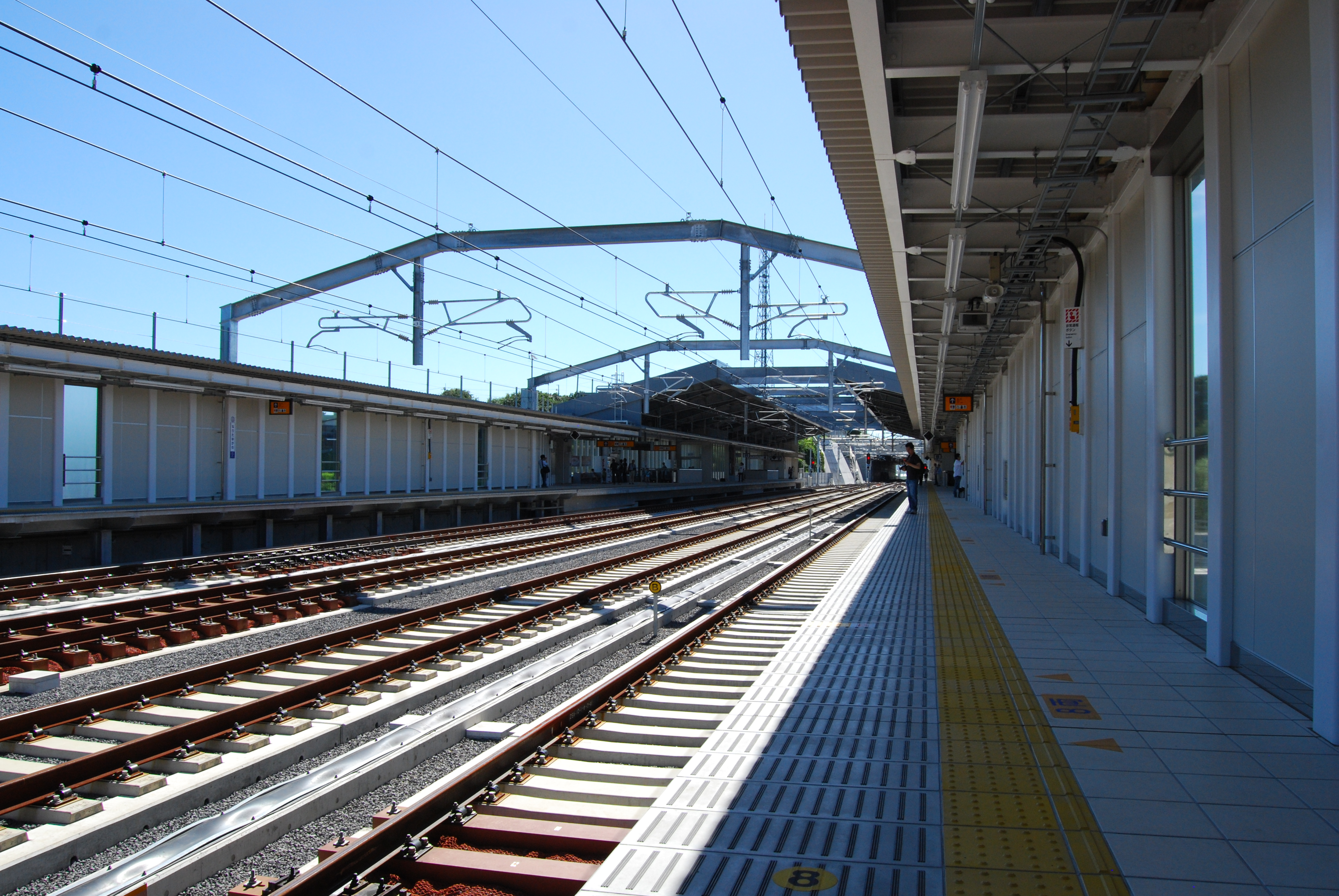 View of the platforms at Narita Yukawa Station